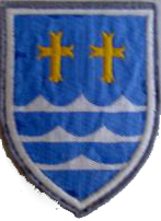 coat of arms of the Bundeswehr (Armed Forces of the Federal Republic of Germany). → Remarks on naming and categorization scheme